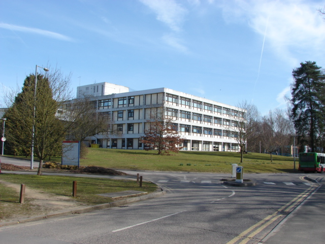 St Peters Hospital, Chertsey A view of the main hospital road with the Abbey Wing in the background.